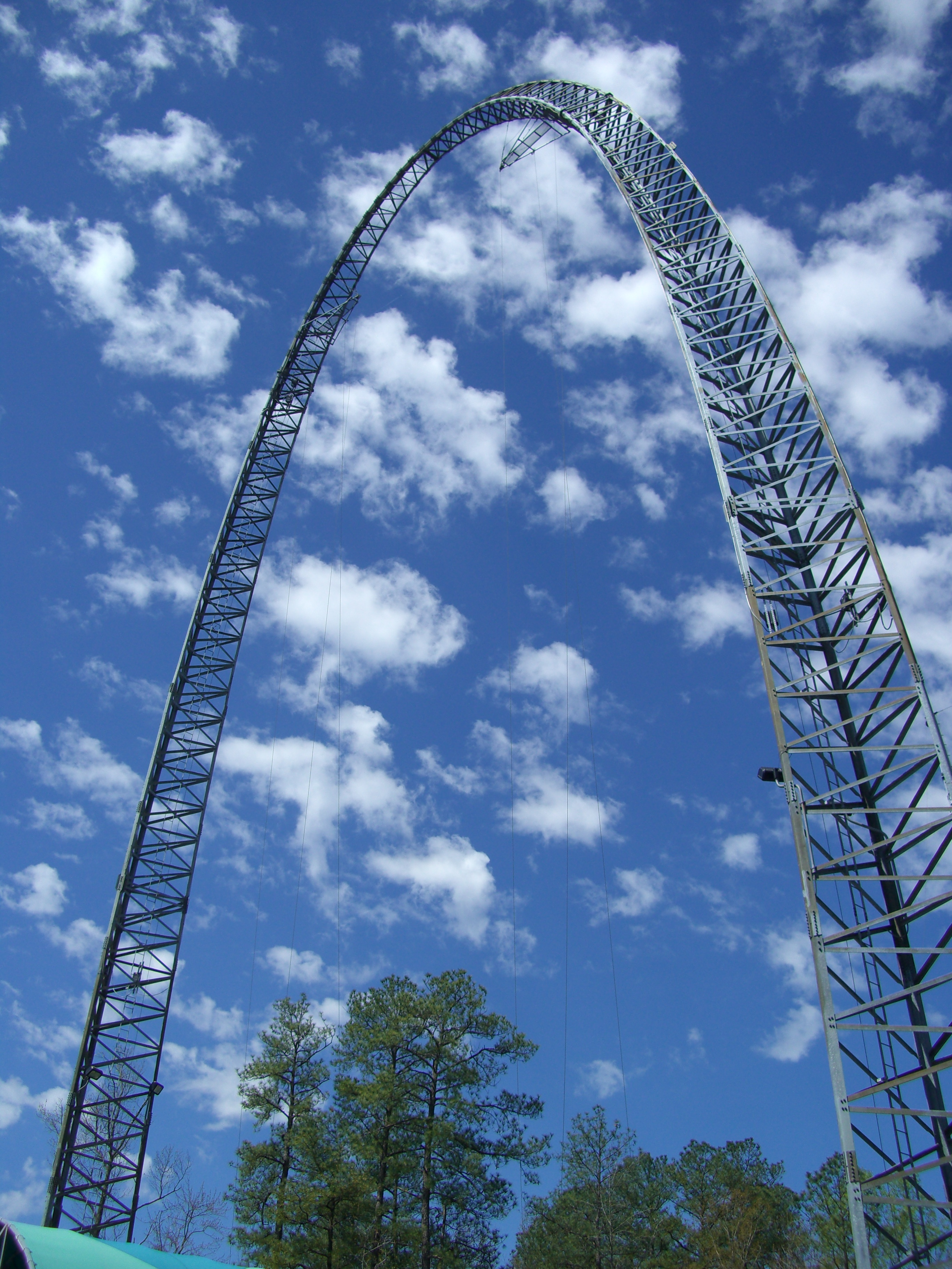 A typical Skycoaster arch tower. This Skycoaster arch, Xtreme Skyflyer at Kings Dominion, stands 173 feet tall, while riders only reach a maximum height of 153 feet. The only requirement of this license is that you give me credit, otherwise the image is free.